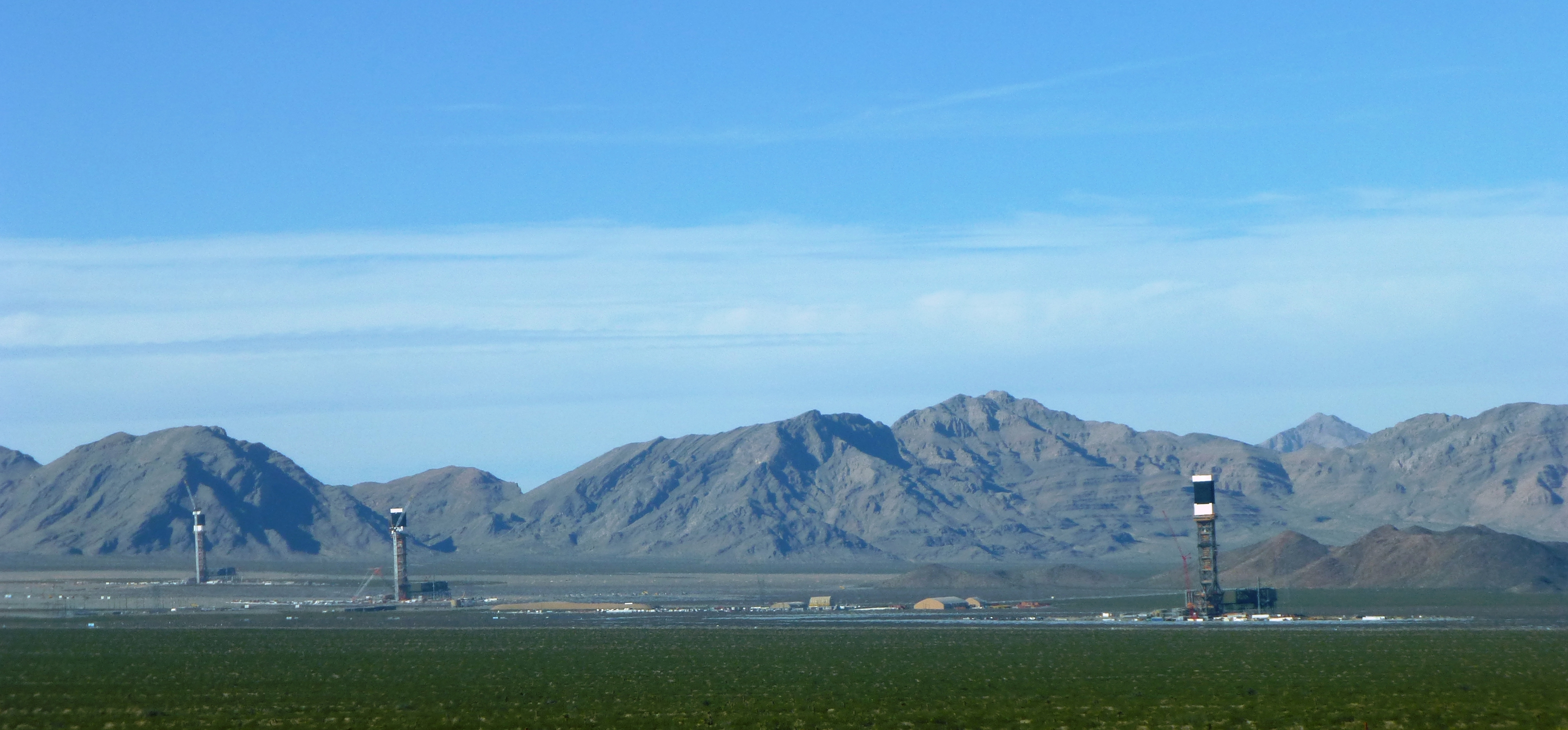 View of Ivanpah Solar Electric Generating System from Yates Well Road, outside of Primm, Nevada